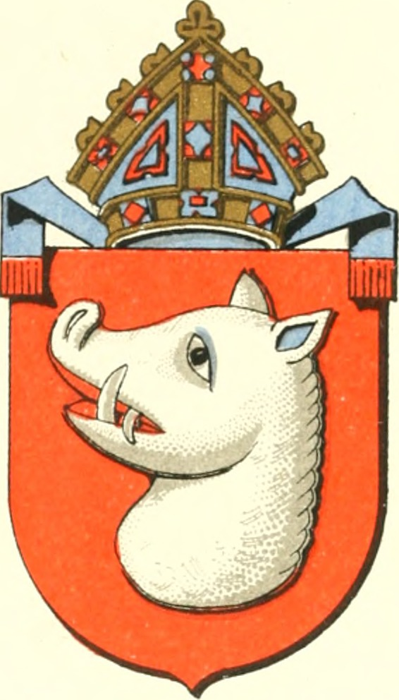 Coat of arms of James Chisholm Bishop of Dunblane. Identifier: lacunarbasilicae00geddrich Title: Lacunar basilicae Sancti Macarii, aberdonensis: the heraldic ceiling of the cathedral church of St. Machar, old Aberdeen Year: 1888 (1880s) Authors: Geddes, W. D., Sir (William Duguid), 1828-1900 Duguid, Peter Subjects: Old Machar Church (Aberdeen, Scotland) Heraldry -- Scotland Heraldry, Ornamental Publisher: Aberdeen : Printed for the New Spalding Club